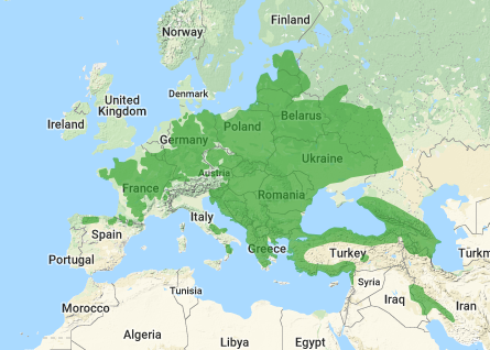 Middle Spotted Woodpecker (Leiopicus medius) new distribution map. BirdLife